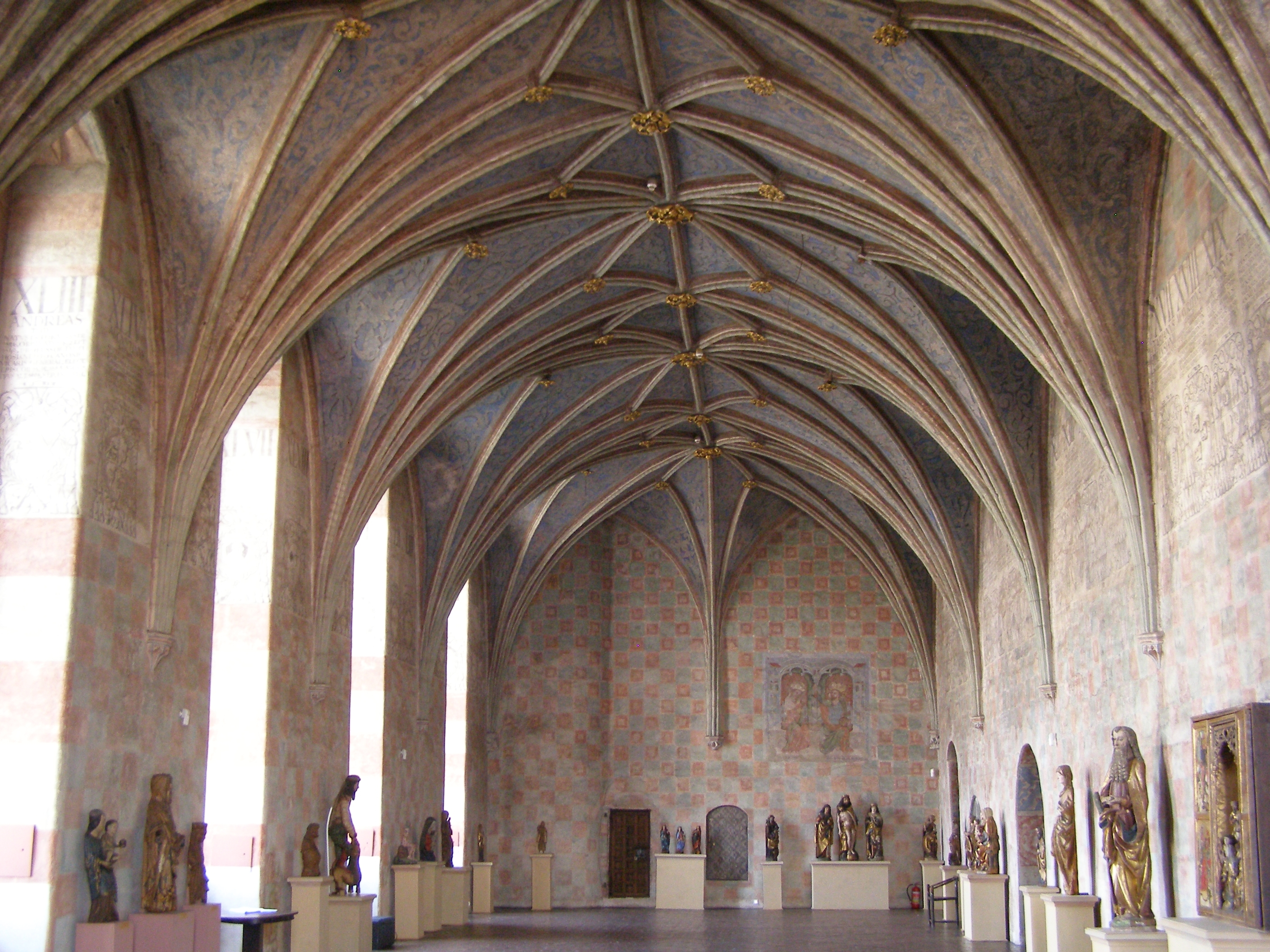 Lidzbark Warmiński - The Great Refectory in the Bishop Castle